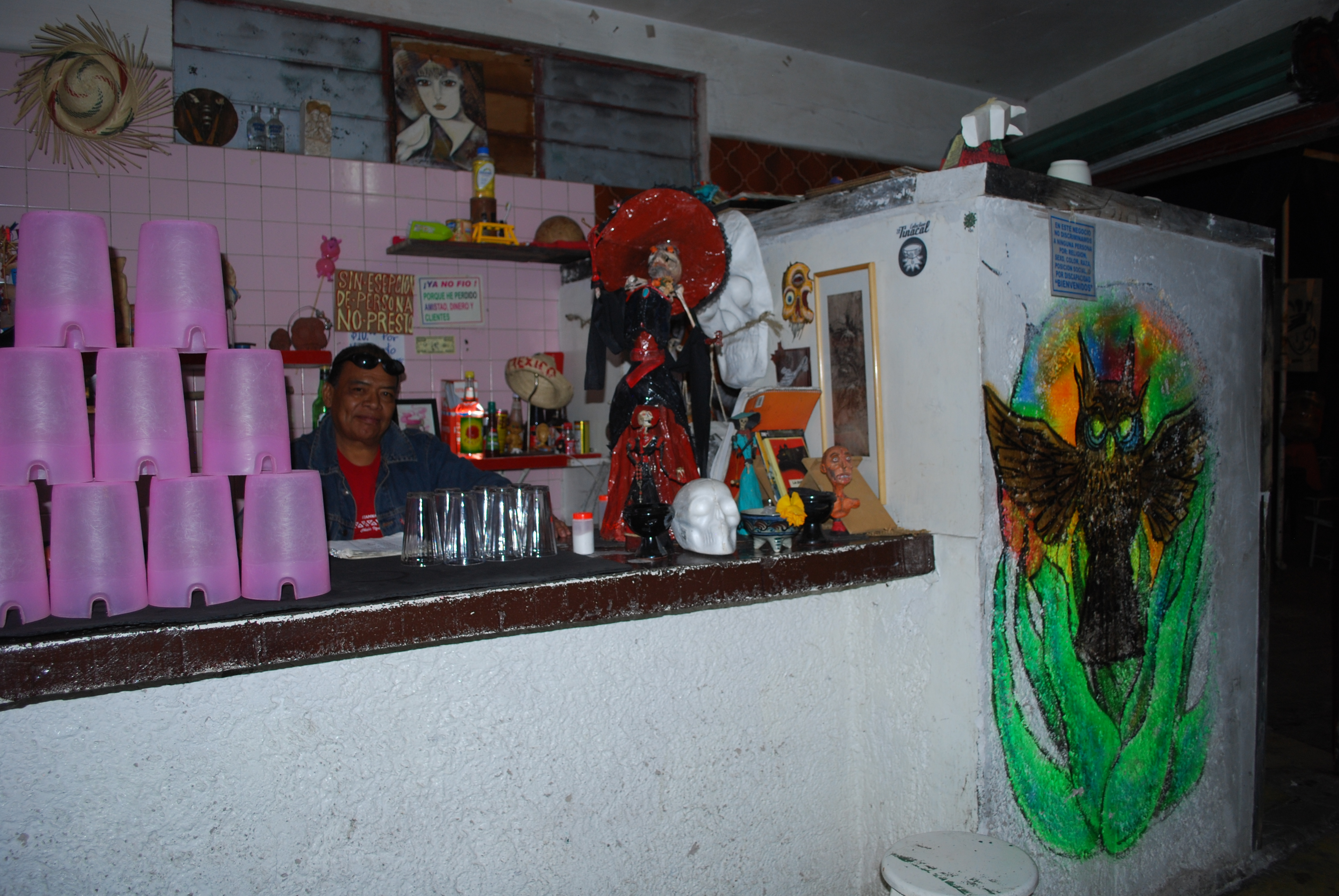 Bar inside the Pulqueria Tecolote in Santa Marta Acatitlan, Mexico City